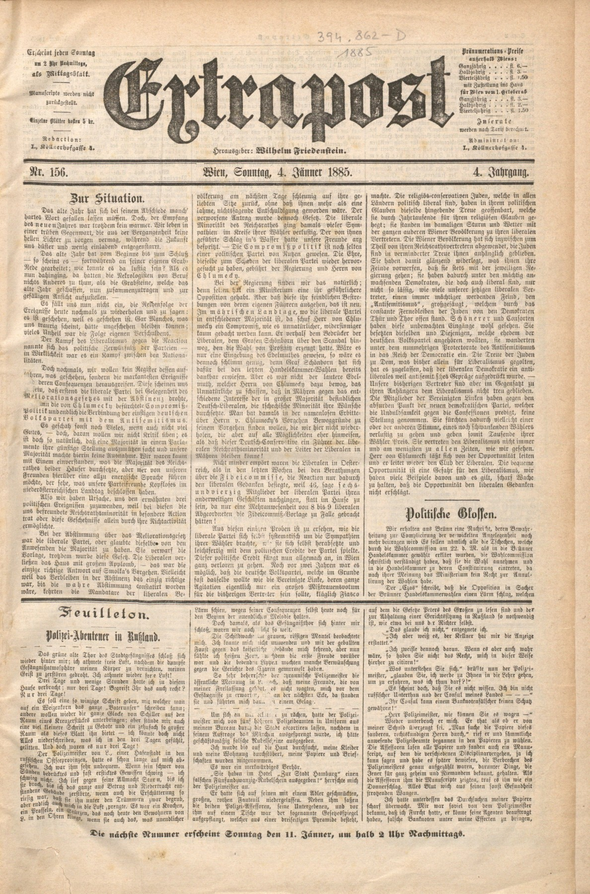 old austrian newspaper